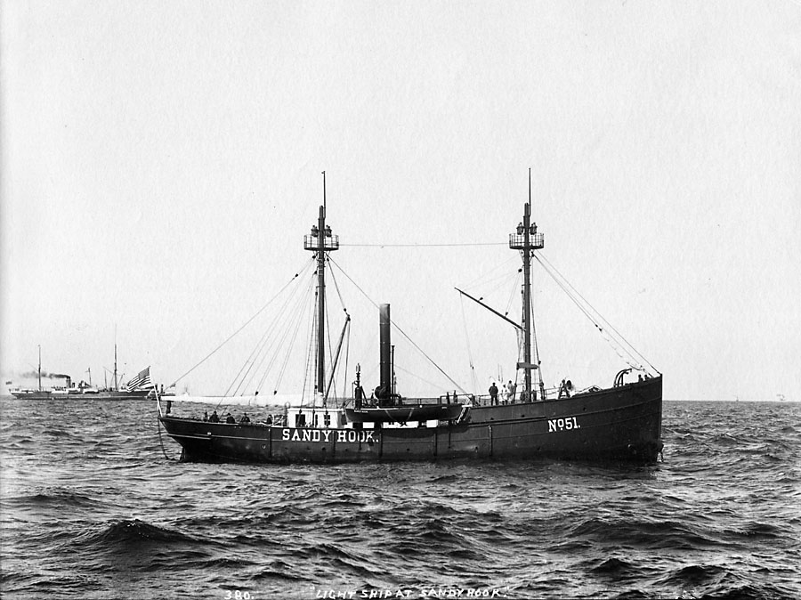 Light Ship #51 at Sandy Hook, c.1894-99.